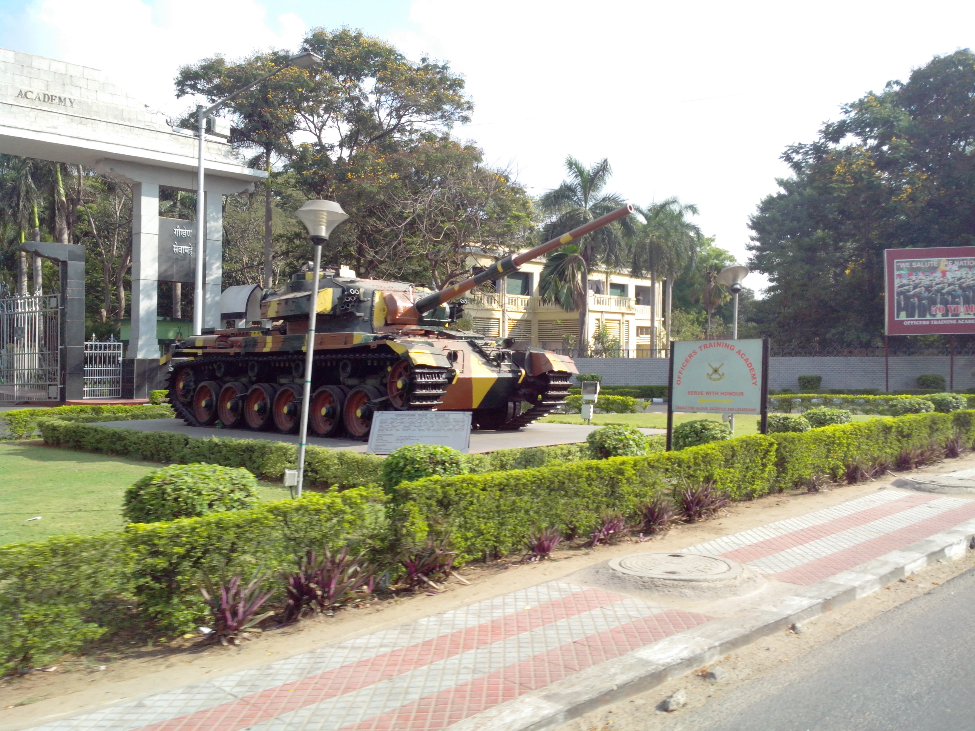 Centurion Mk7 tank at static display at the entrance of Officer's Training Academy, Chennai, India